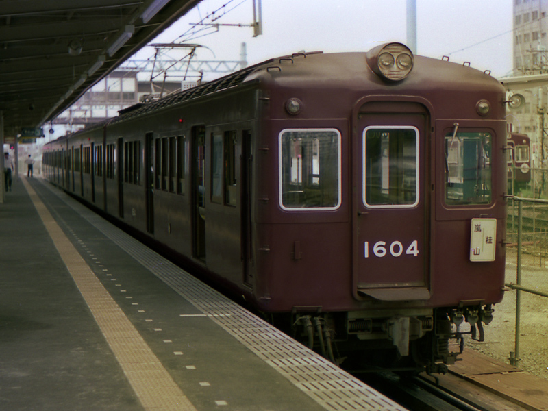 Hankyu Railway 1600 Series at Katsura Station